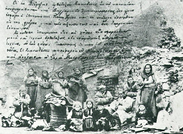 Greek villagers after the massacres of Strentza (near Monaster, Macedonia) during the Macedonian Struggle 1903-1908, Athens, National Historical Museum.